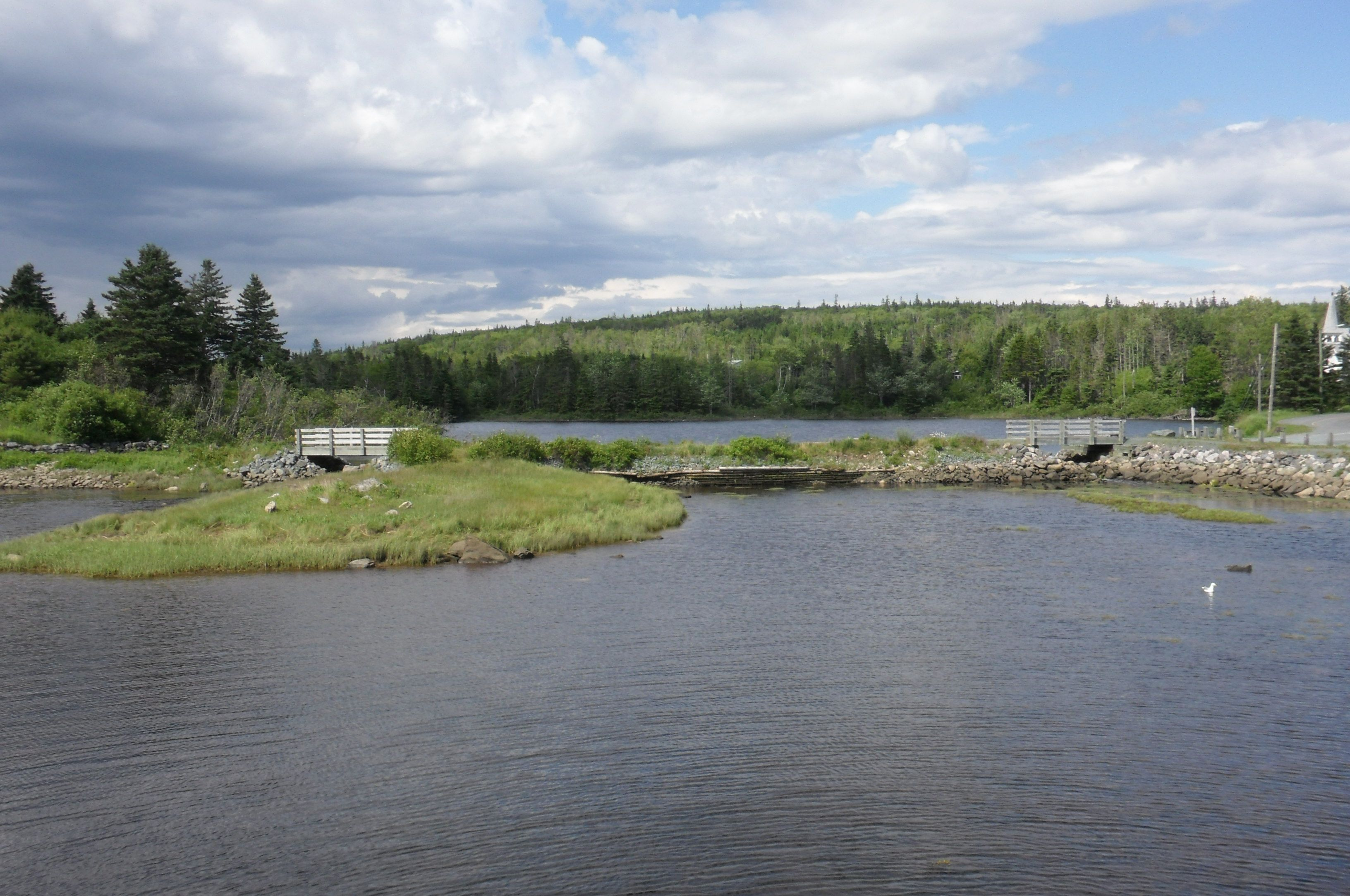 Jeddore